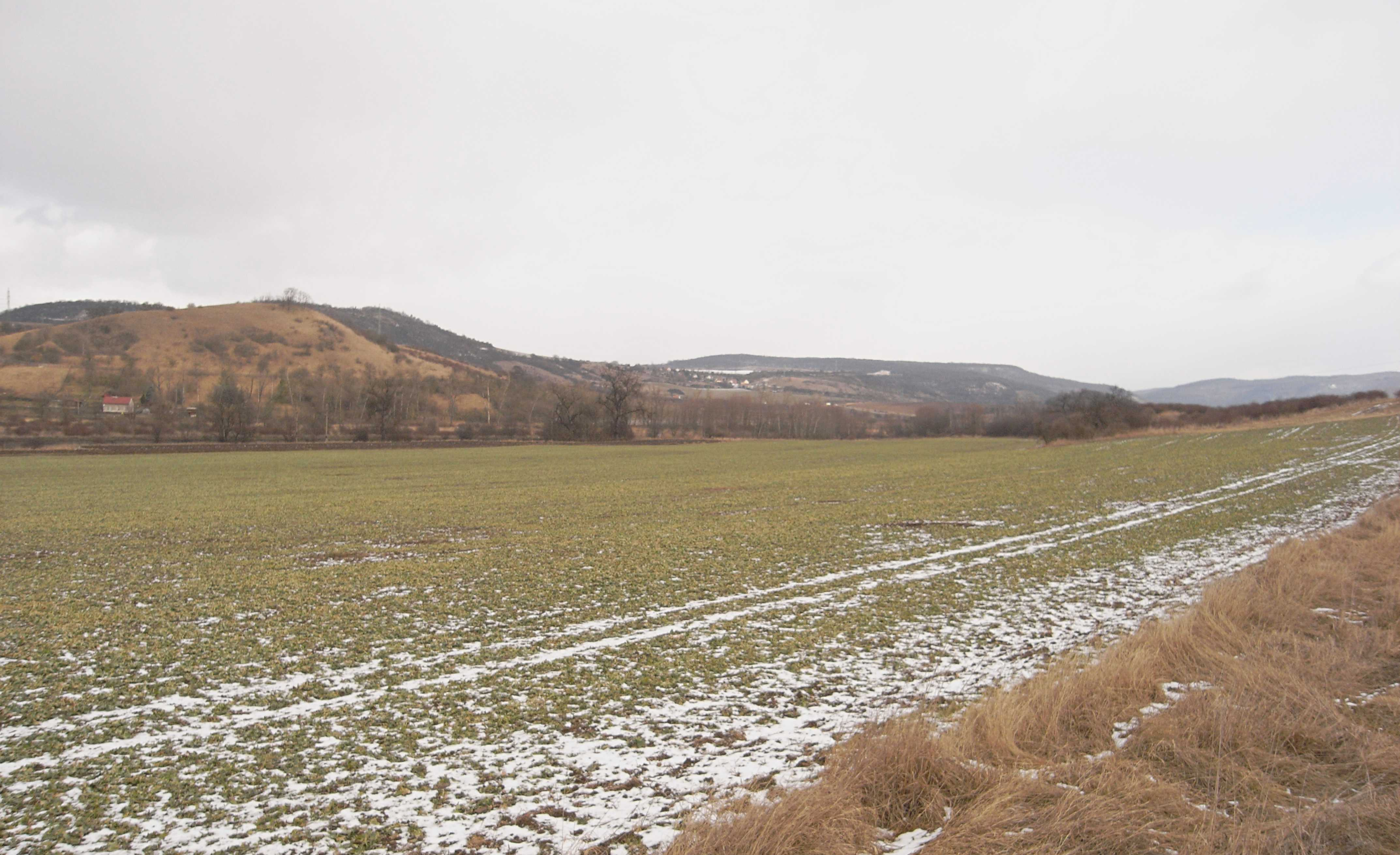 Bílina valley between Řehlovice and Rtyně nad Bílinou (District Ústí nad Labem, Czech Republic)